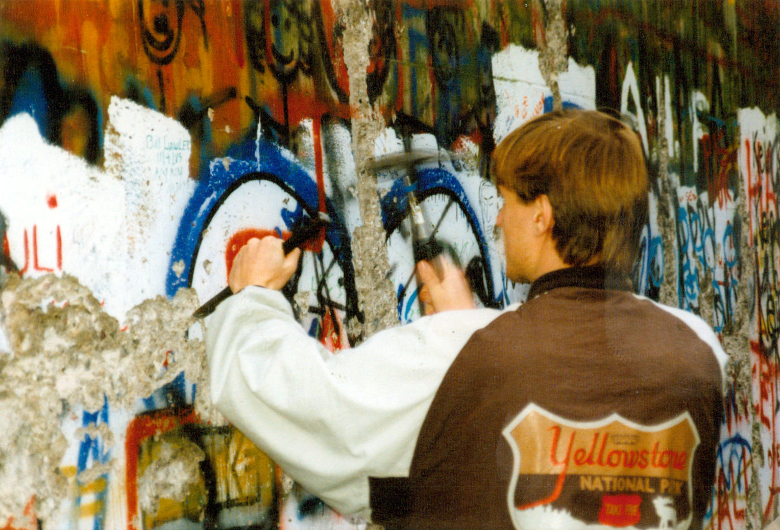 Woodpecker on the Berlin Wall